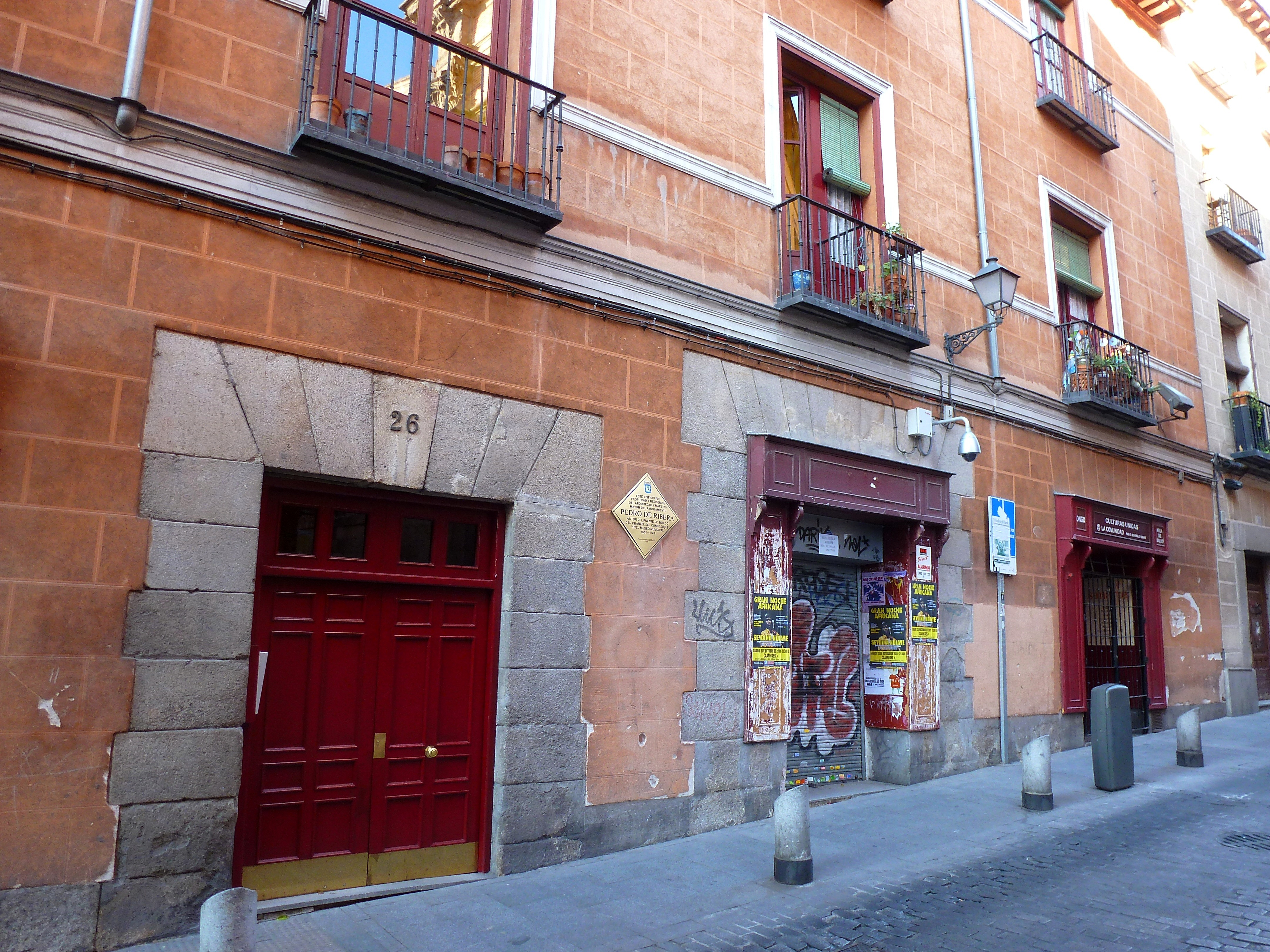 Edificio de la calle de Embajadores de Madrid, España, en el que tuvo su residencia el arquitecto Pedro de Ribera.